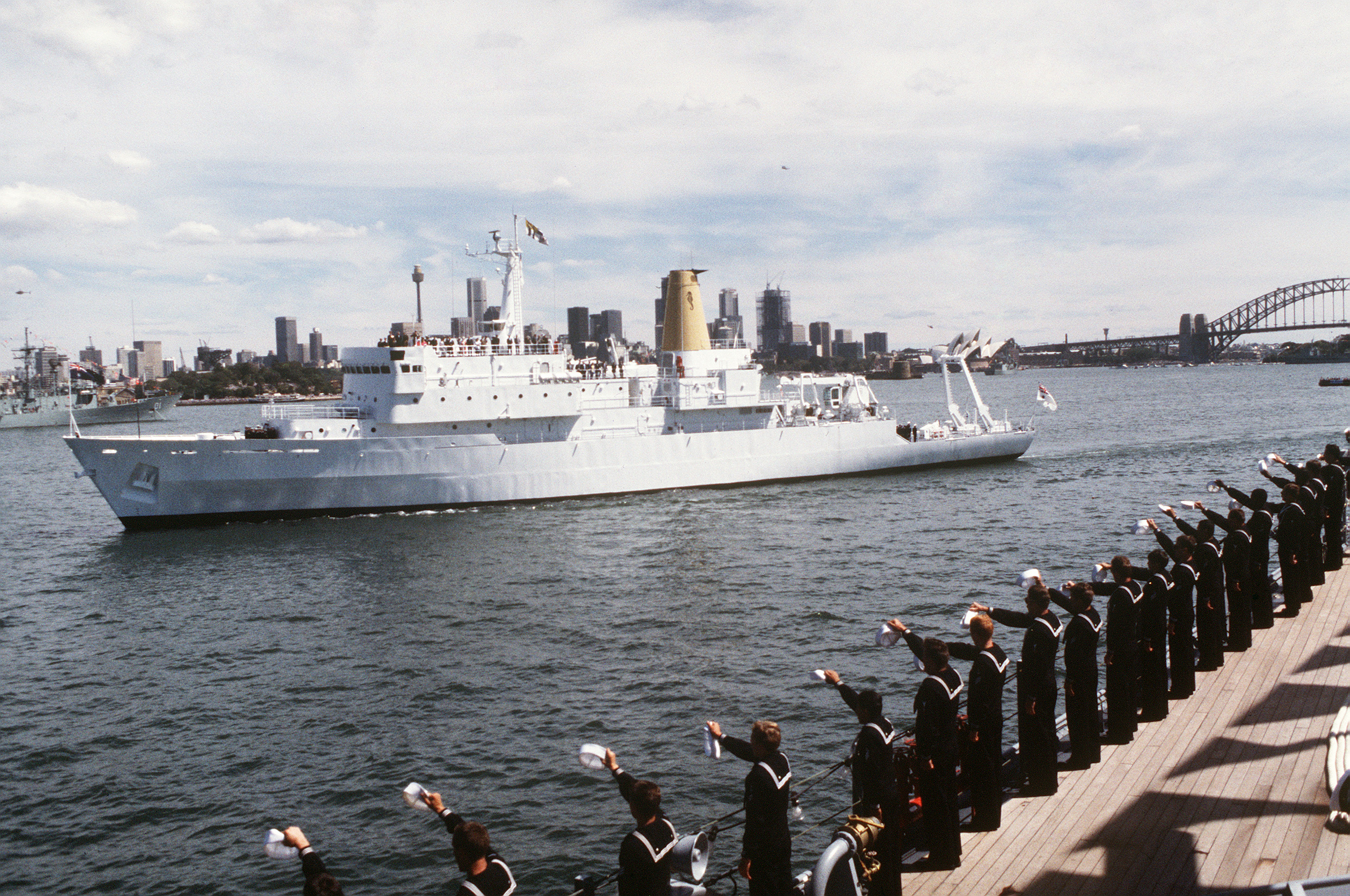 ID: DNST8700698 Service Depicted: Navy Crew members aboard the battleship USS MISSOURI (BB 63) give a cheer to honor Prince Philip, Duke of Edinburgh, as he passes by aboard the Australian oceanographic and survey ship HMAS COOK (A 219). The battleship is stopping over in Sydney during a cruise around the world.